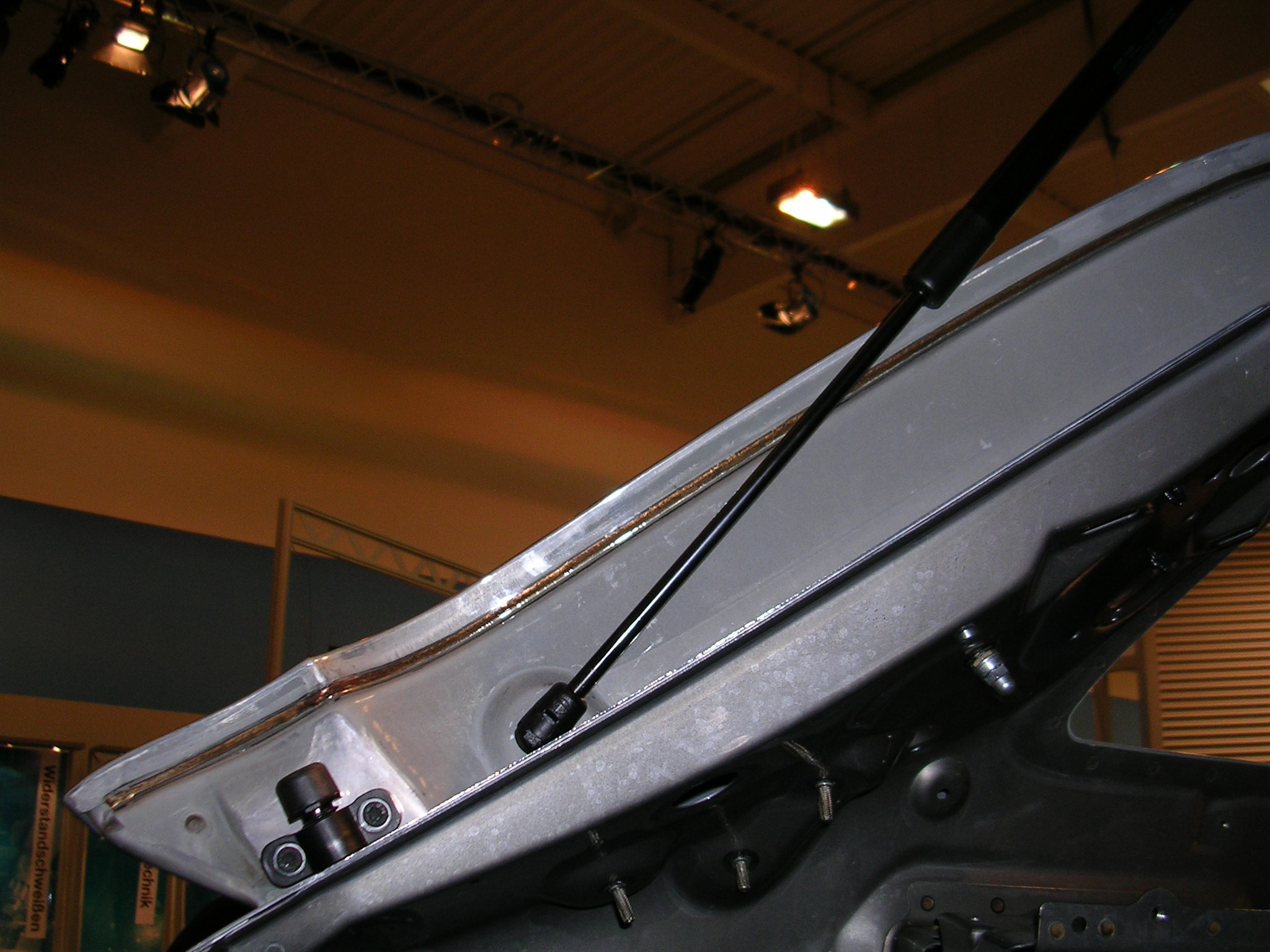 Brazing seam between the wall and water channel in Audi A3.